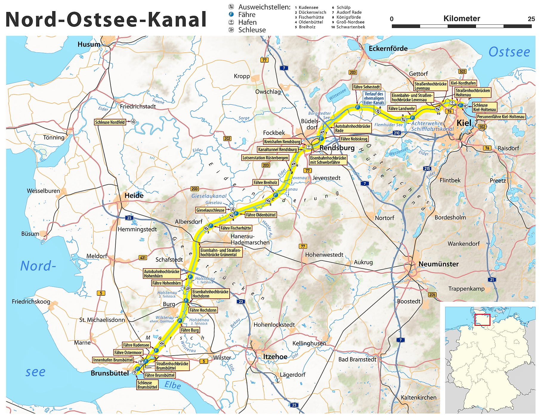 Map of the Kiel Canal